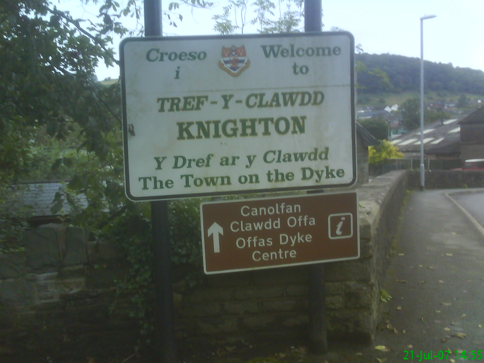 Sign at entry to town